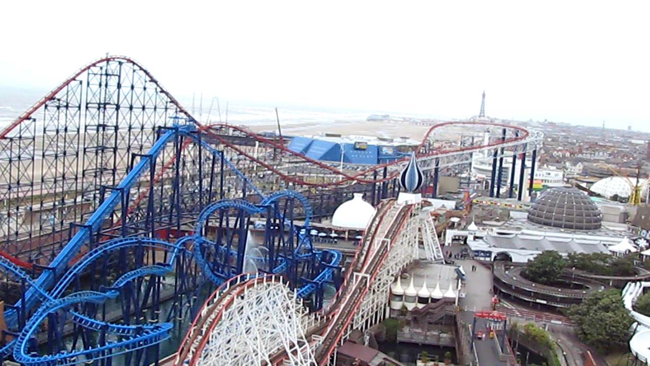 View over Blackpool Pleasure Beach from the lift hill of the Pepsi Max Big One.